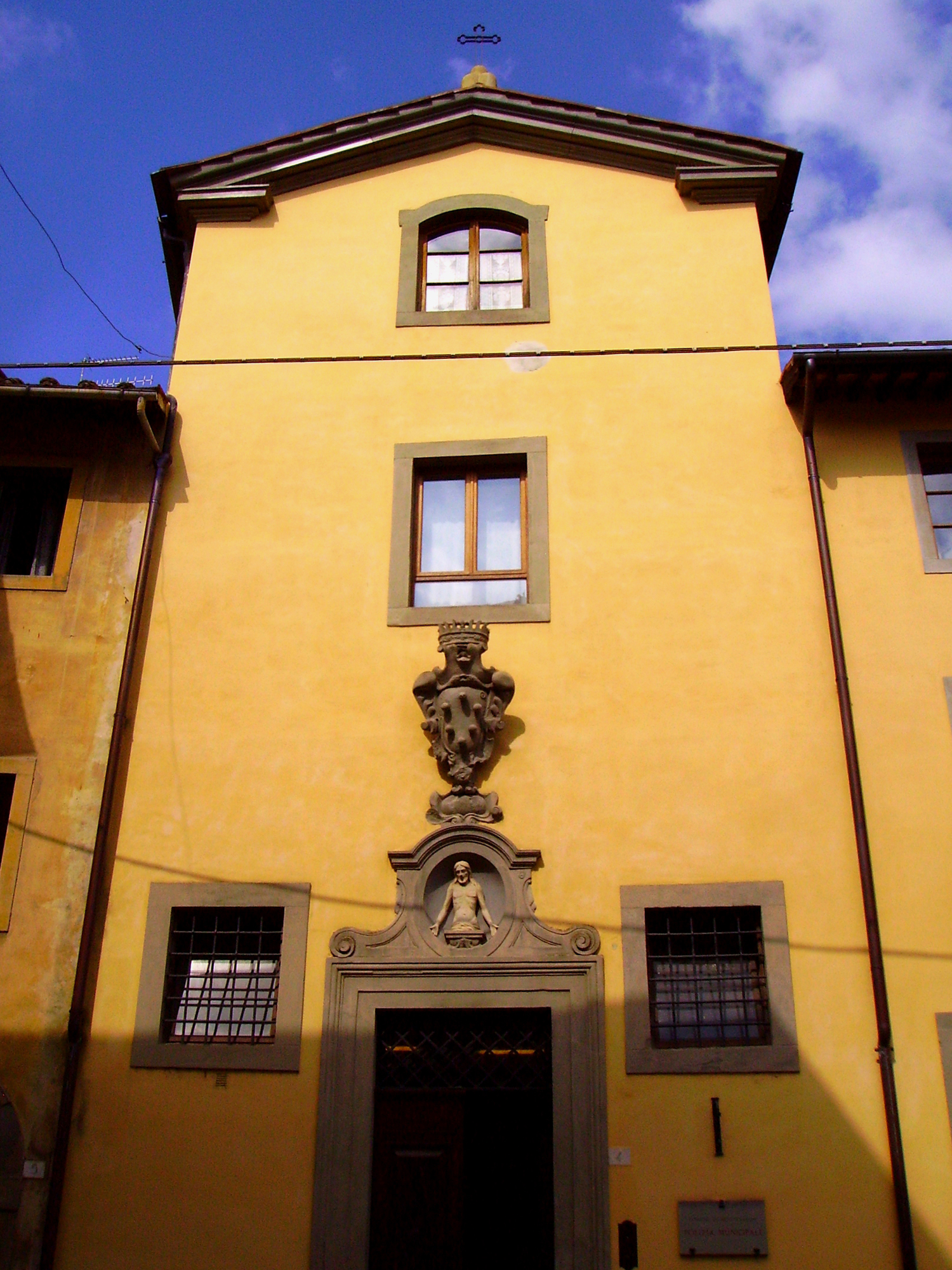 The Monte Pio of Montevarchi, a bank founded on 1551 and absorbed by Cassa di Risparmio on 1954